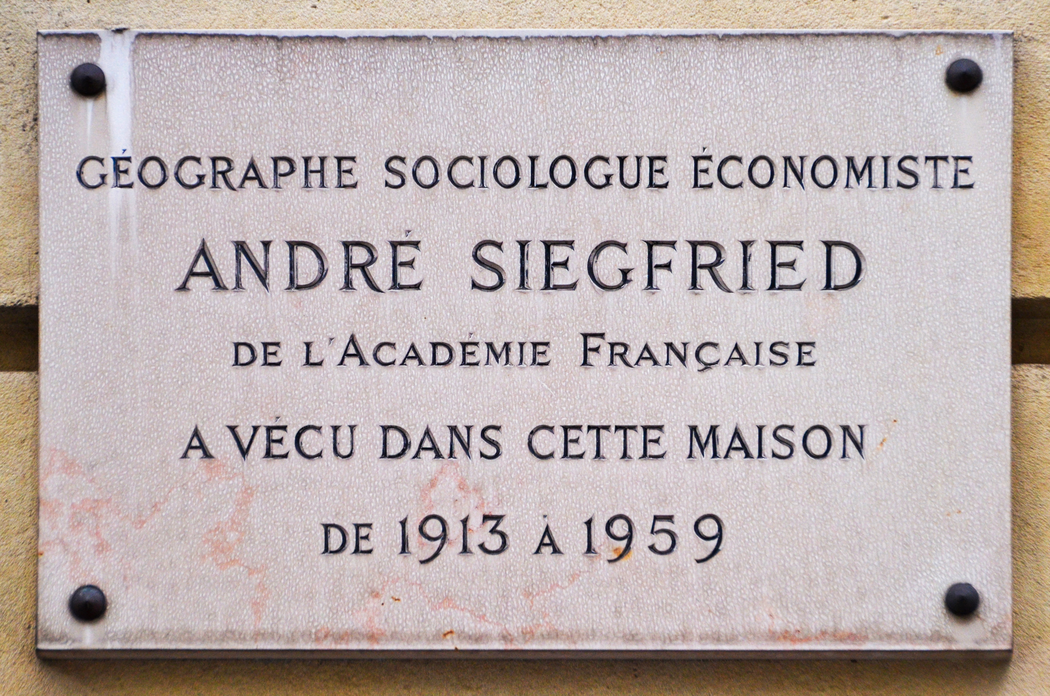 Read more about him here